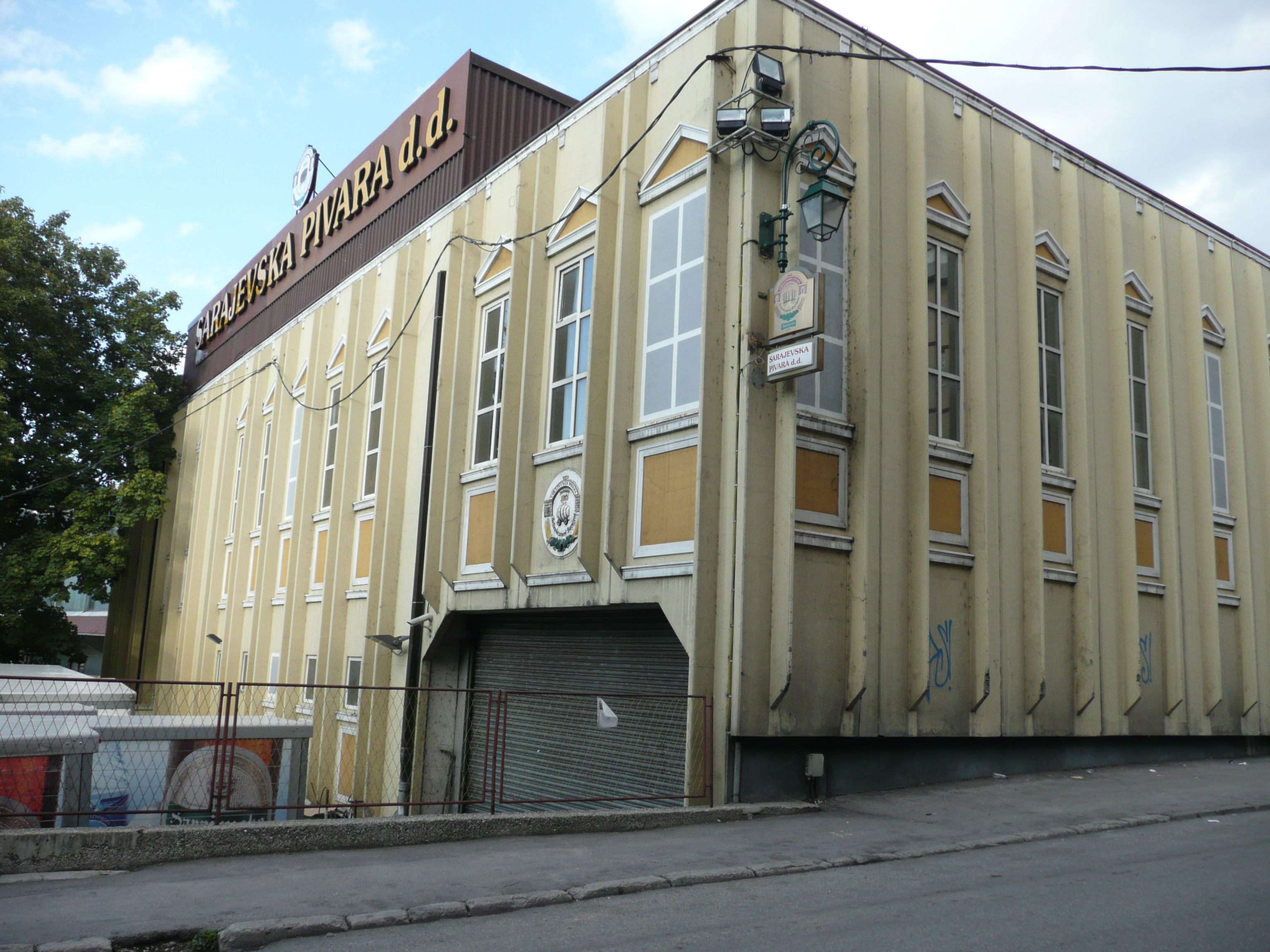 The Sarajevska Pivara Brewery